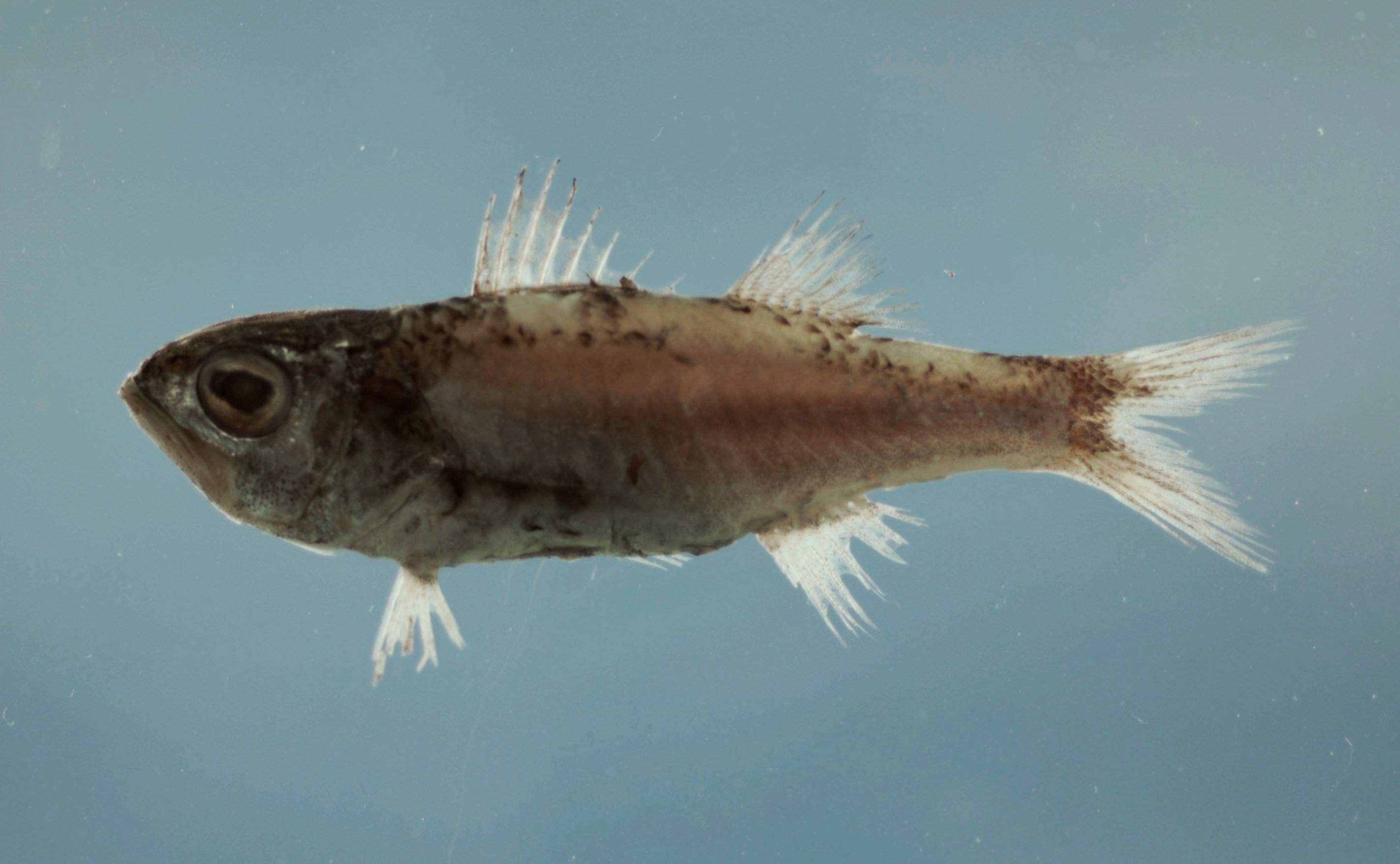 First dorsal serrations of a keelcheek bass (Synagrops spinosus ). Gulf of Mexico.